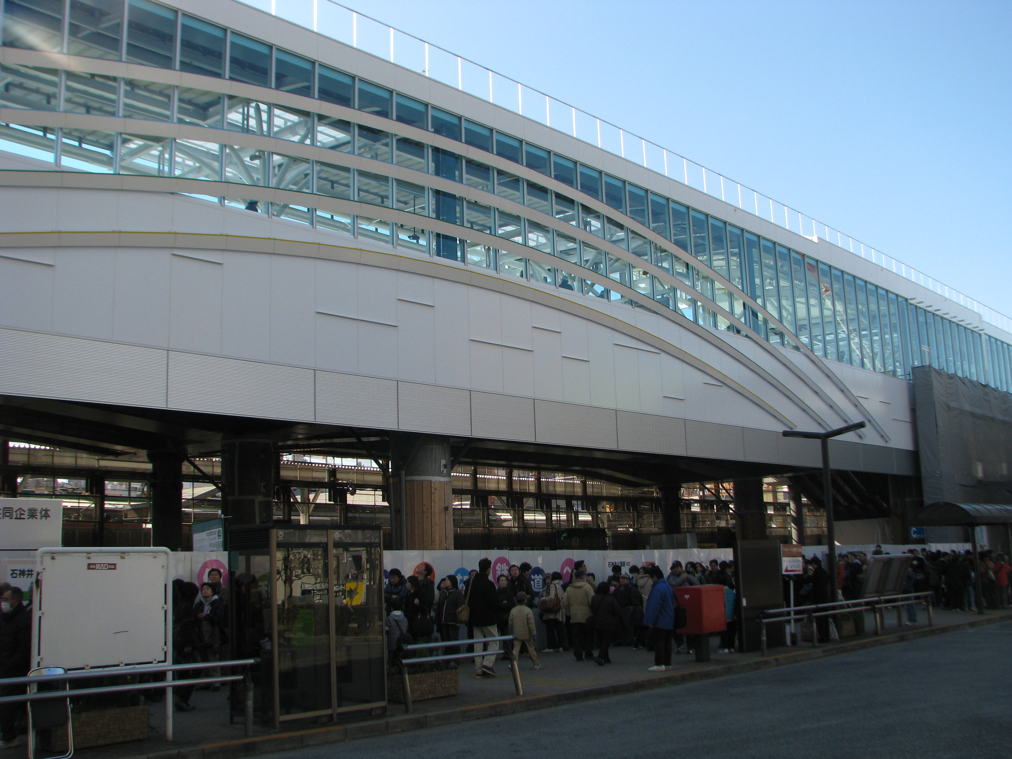 Shakujii-koen Station